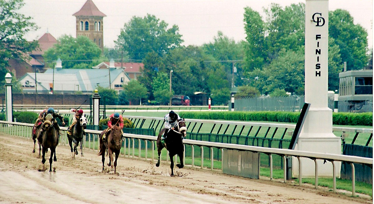 Horses crossing the finish line at Churchill Downs in Louisville, KY.